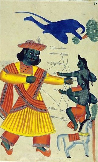 "Illustration to the Ramayana: Rama, using bows and arrows, is fighting with his (unrecognised) twin sons Kusha and Lava. The monkey God Hanuman, shown with blue fur, is seen in flight holding a tree which he is using as a weapon."